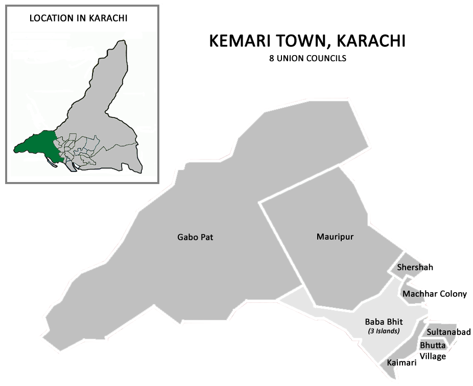 Union councils of Kemari Town, Karachi.